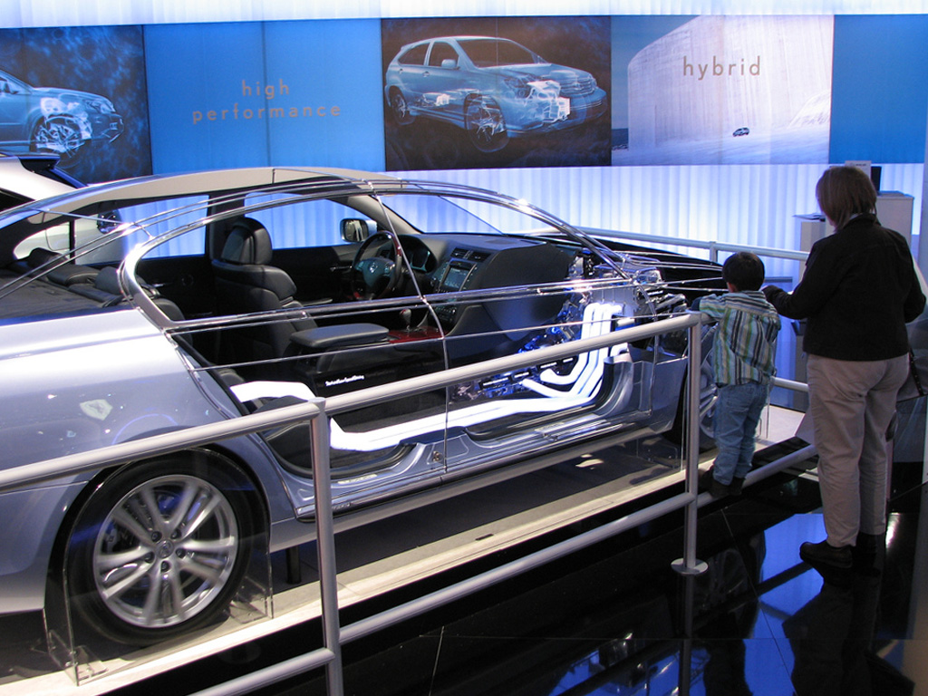 Lexus GS powertrain cutaway